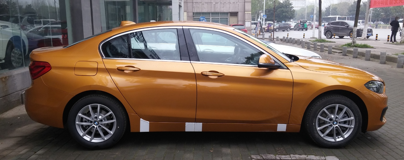 BMW 1-Series F52 photographed in Wuhan, Hubei province, China.